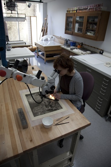 IMA Conservation technician Laura Mosteller examines a work of art using a microscope. Courtesy of the Indianapolis Museum of Art.